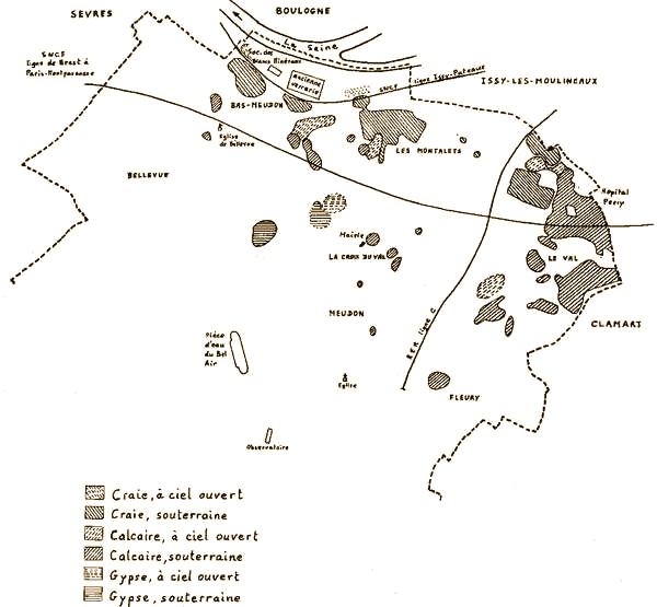 Old map of the IGC ( Inspection générale des carrières) - Montalets or Montalet or Montalais - Brillants - ...